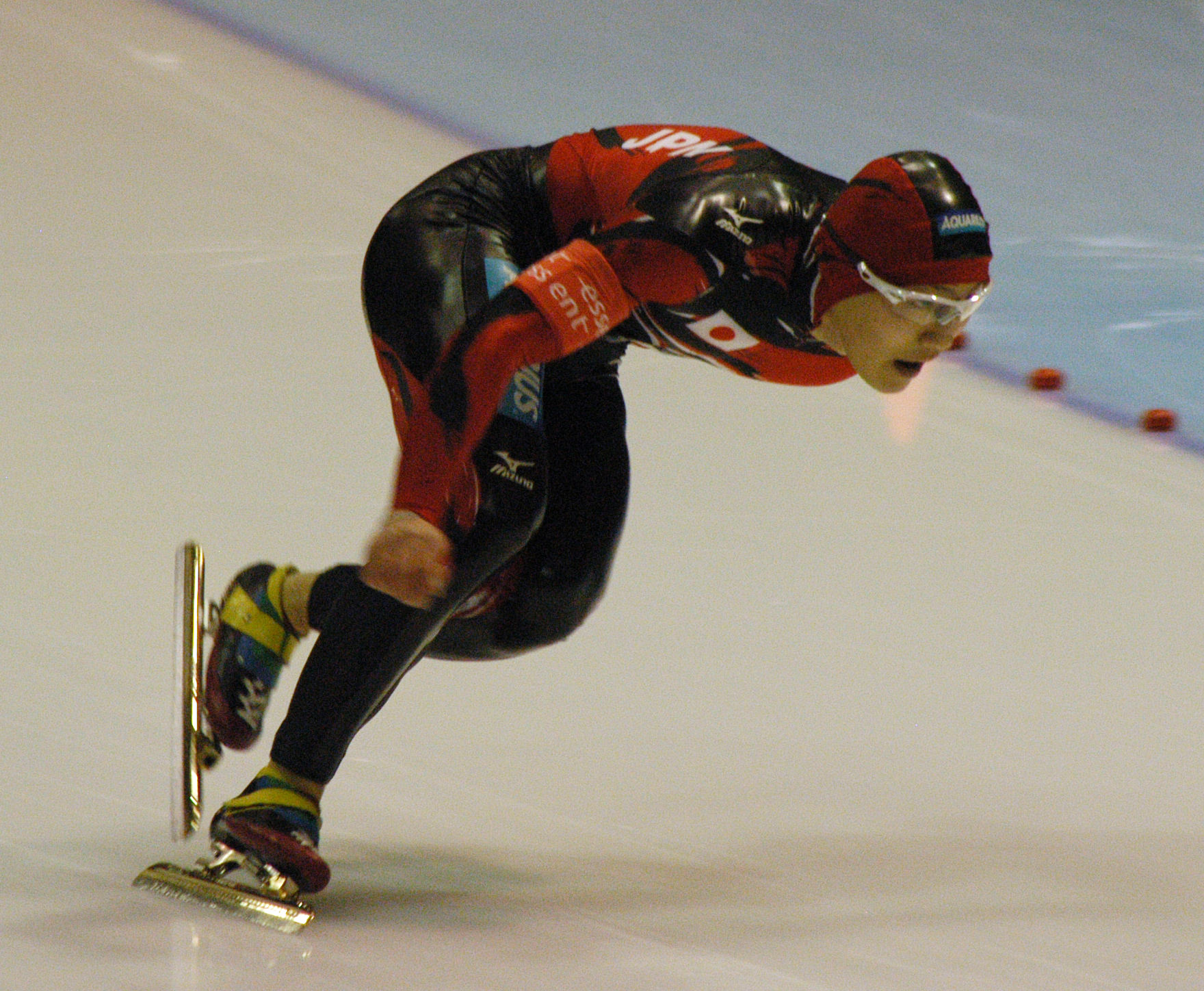 Joji Kato (JPN) at a world cup speedskating in Heerenveen, the Netherlands.